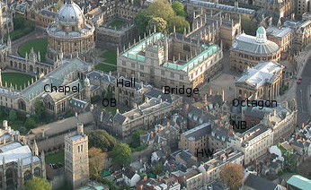 This is an aerial shot of Oxford City centre with Hertford College marked